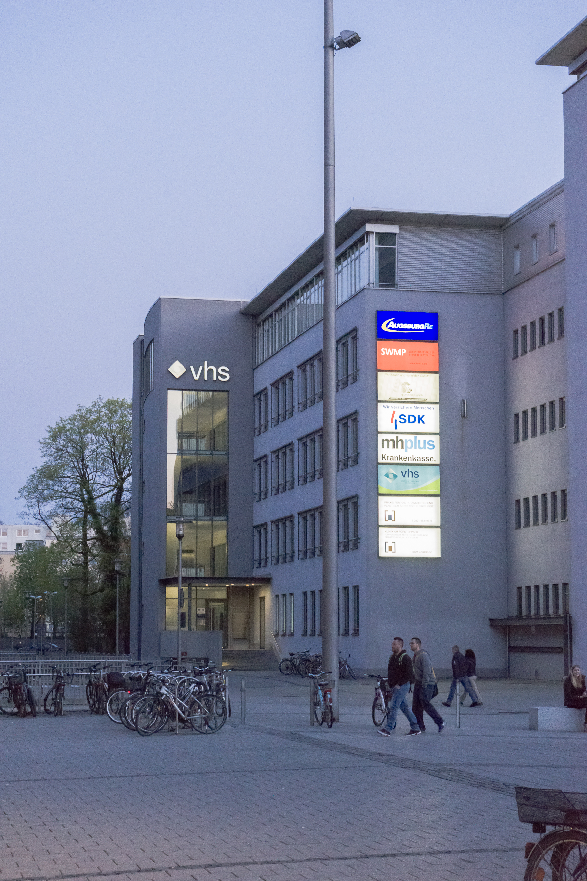 Augsburger Volkshochschule at dusk.